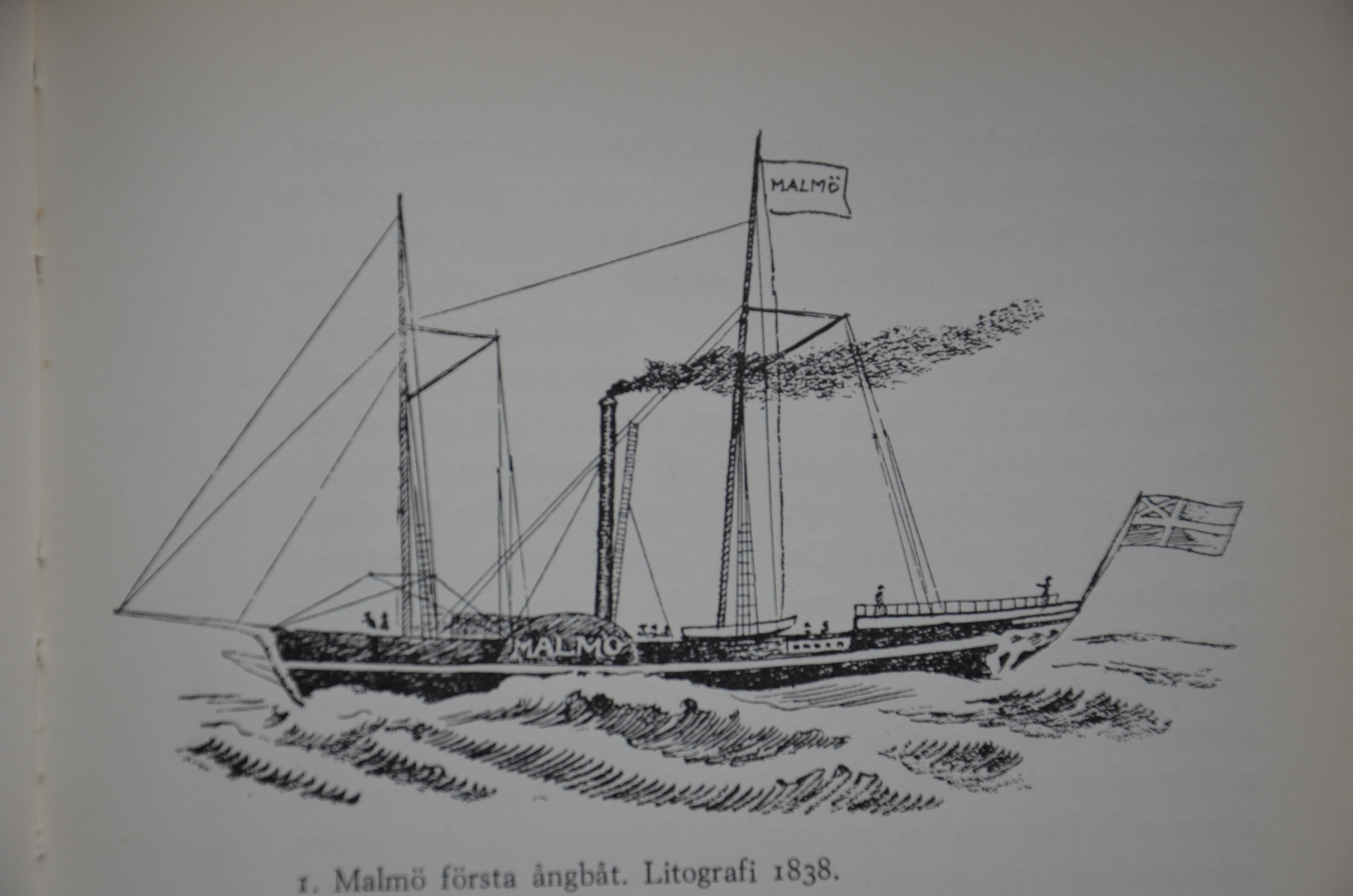 Wheel steamer Malmö on a litographic picture from 1838